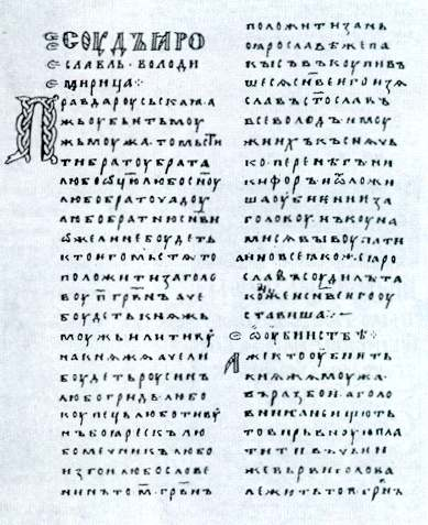 Copy of the "Vast[1] edition" of the "Russkaya Pravda".